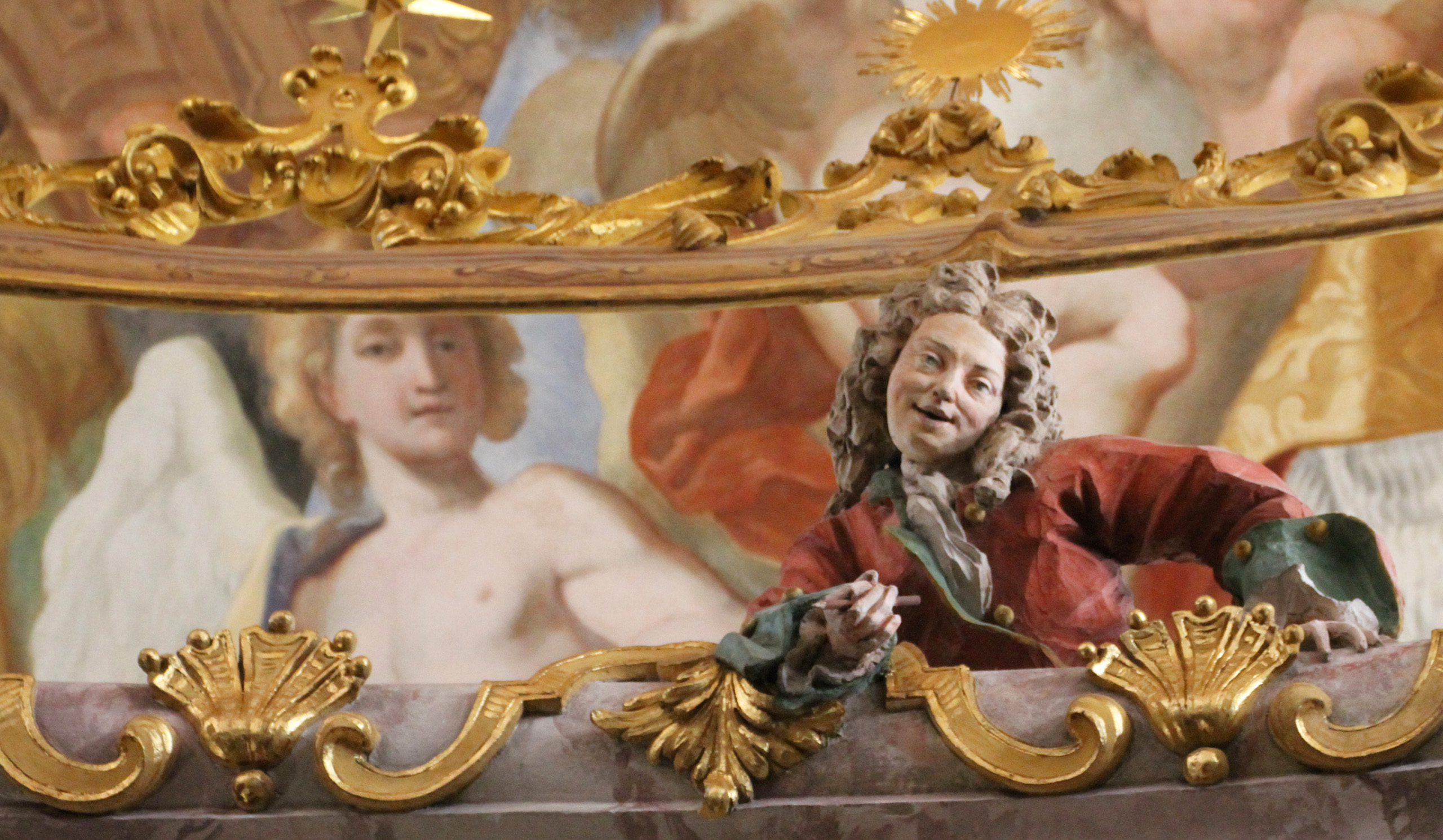 Egid Quirin Asam (painting left) and his brother Cosmas Damian Asam (sculpture right) inside Weltenburg Abbey.